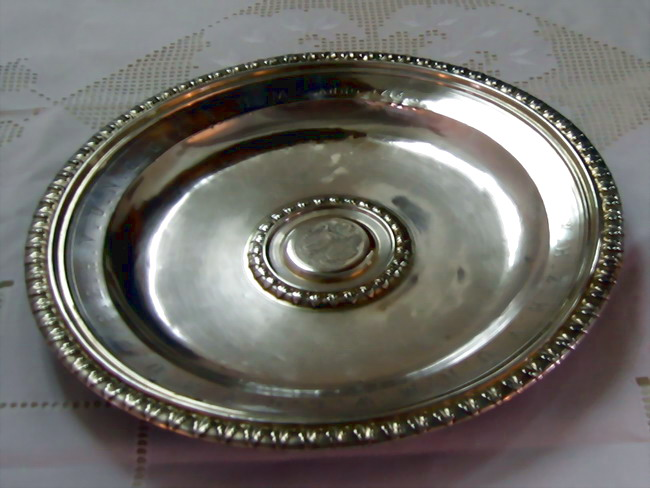 Babtism bowl from 1718 at the Ev. church in municipality Nümbrecht. - Taufschale von 1718 in der Ev. Kirche in Nümbrecht. Taufschale in der Ev. church at municipality Nümbrecht. Author mrfinch Time of creation 04 05. 2005 Licence GNU FDL and CC-by-SA Camera Canon S 45